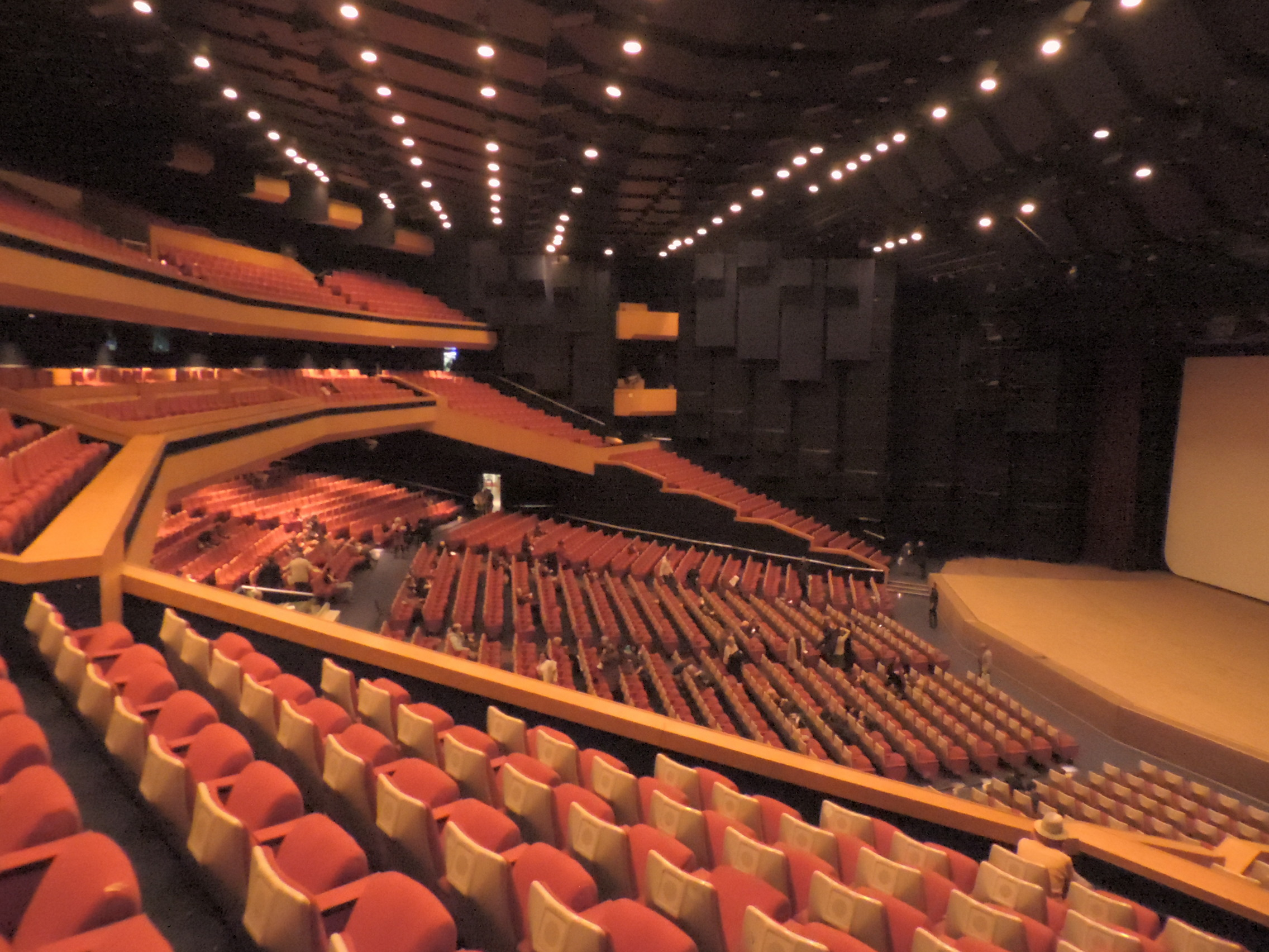 Hall 1 of the National Palace of Culture, Sofia, Bulgaria